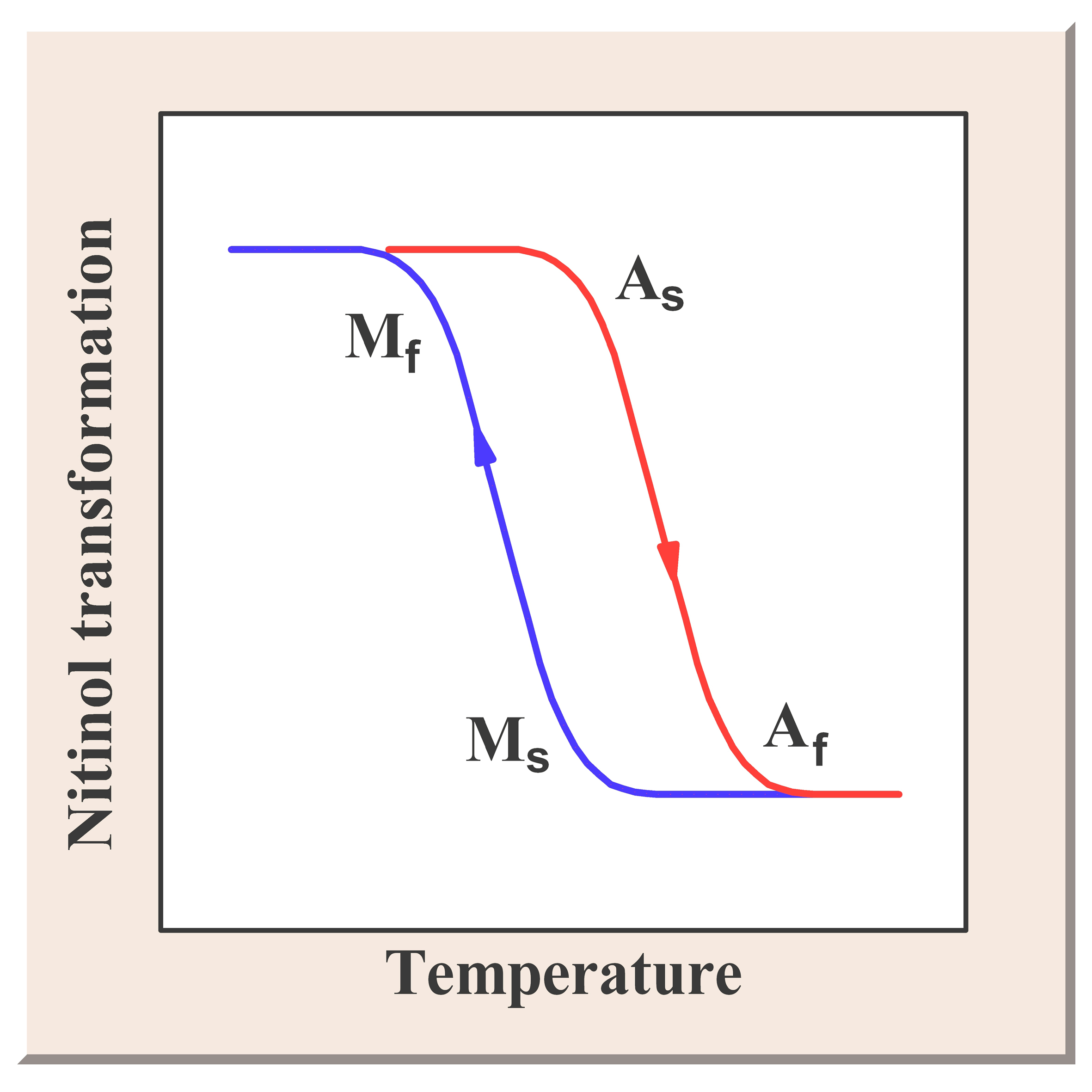 A diagram of nitinol transformation hysteresis